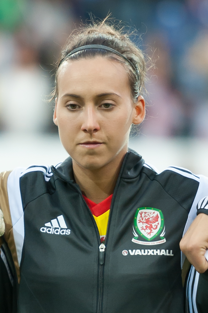 Women's Euro Qualification Austria vs. Wales, 2015-09-22, St. Pölten, Lower Austria